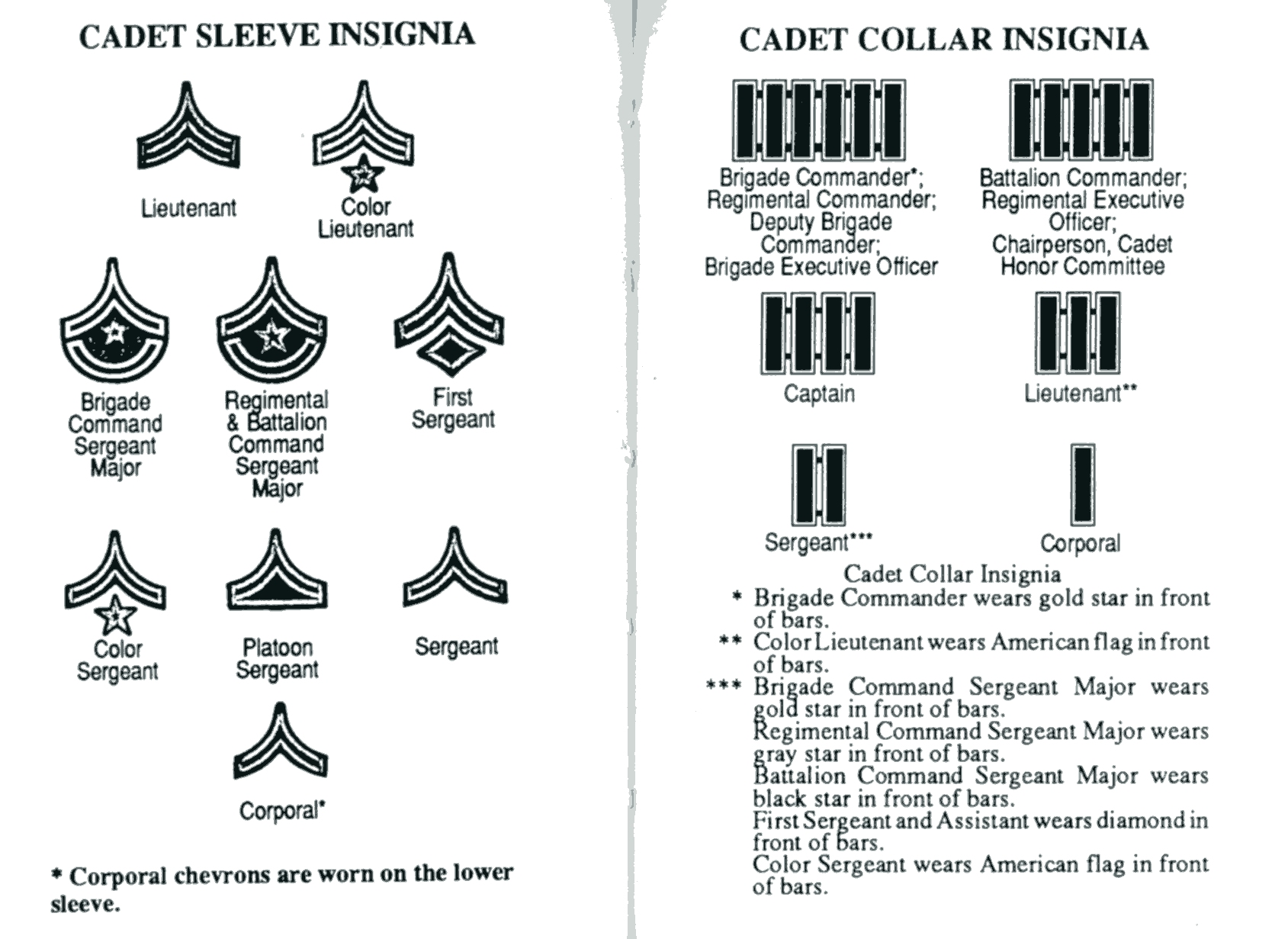 Rank Insignia of West Point Cadets